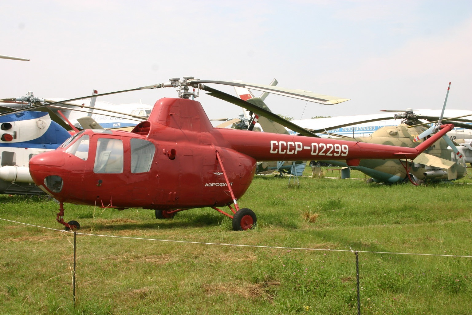 At Kiev - Zhulhany Museum